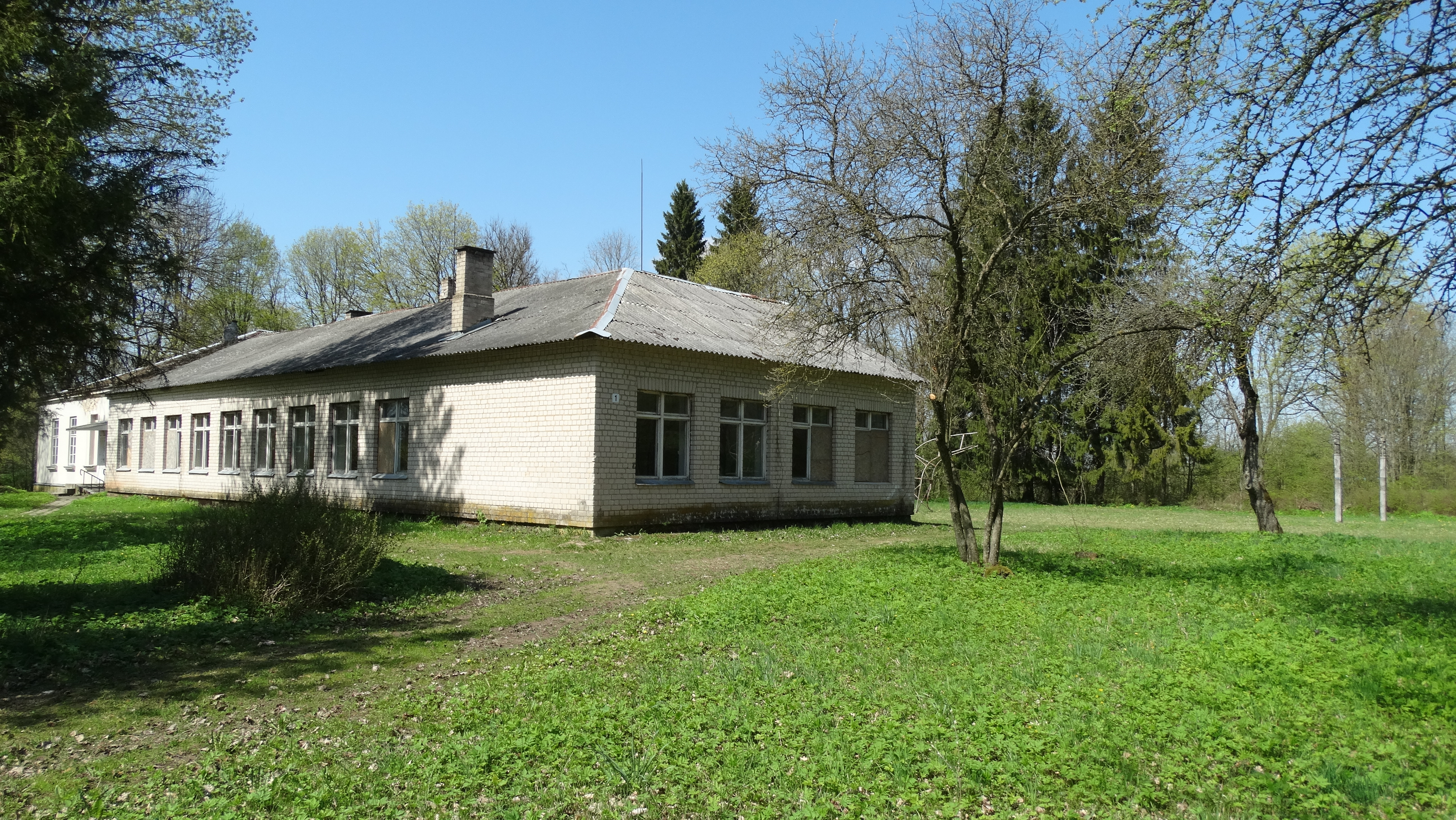 School in Liukonys, Širvintos District, Lithuania